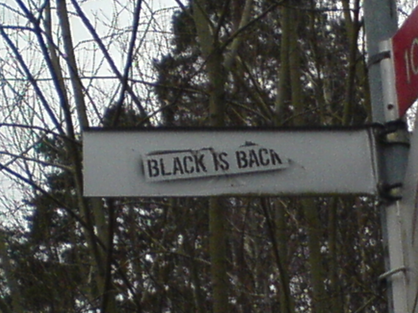 A picture of a sign with a post-it tag that says "Black Is Back" (AIK).